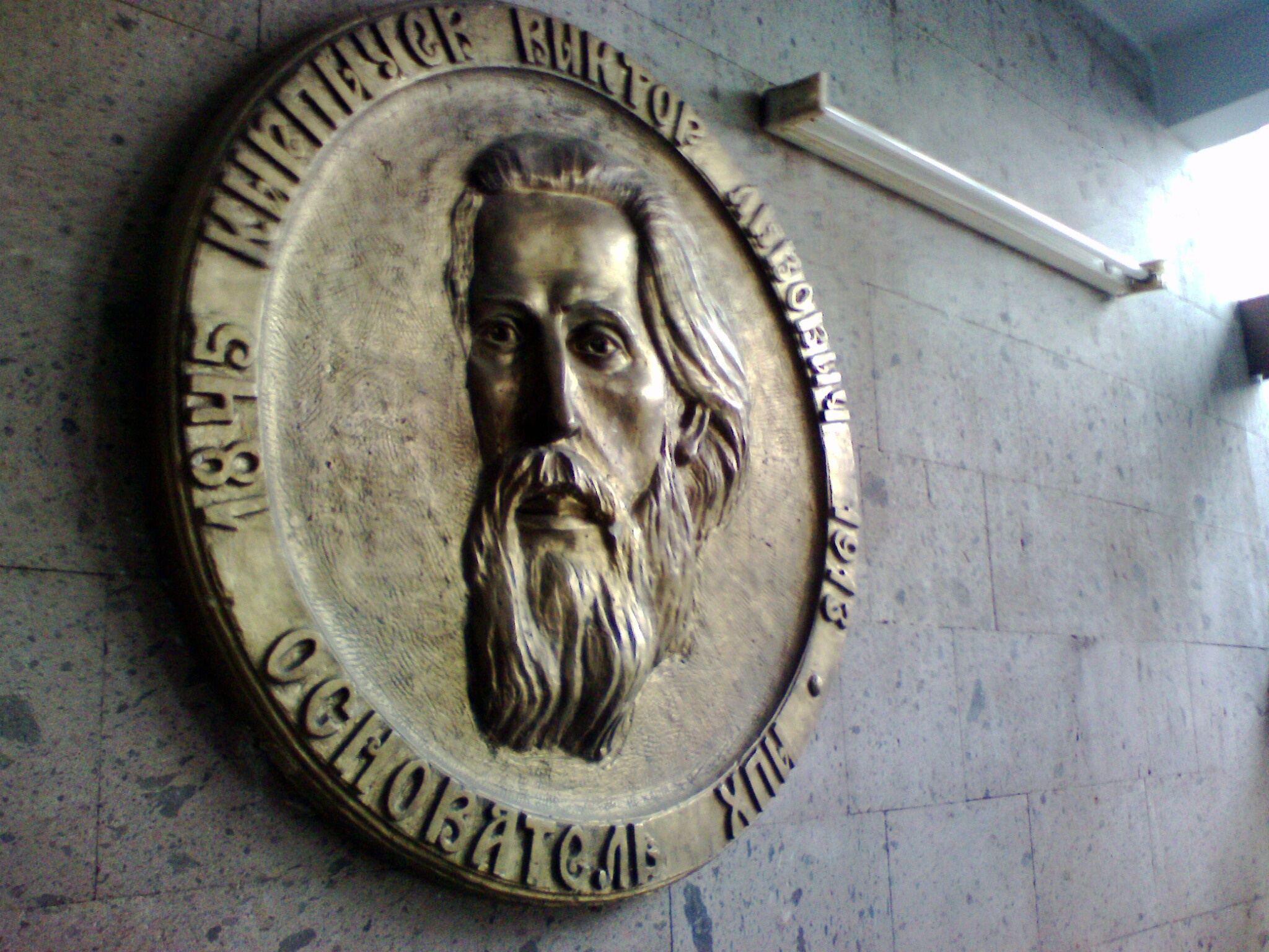 Bust founder of Kharkov Polytechnic Institute in the shell Kirpicheva U-2 Kharkov Polytechnic Institute.